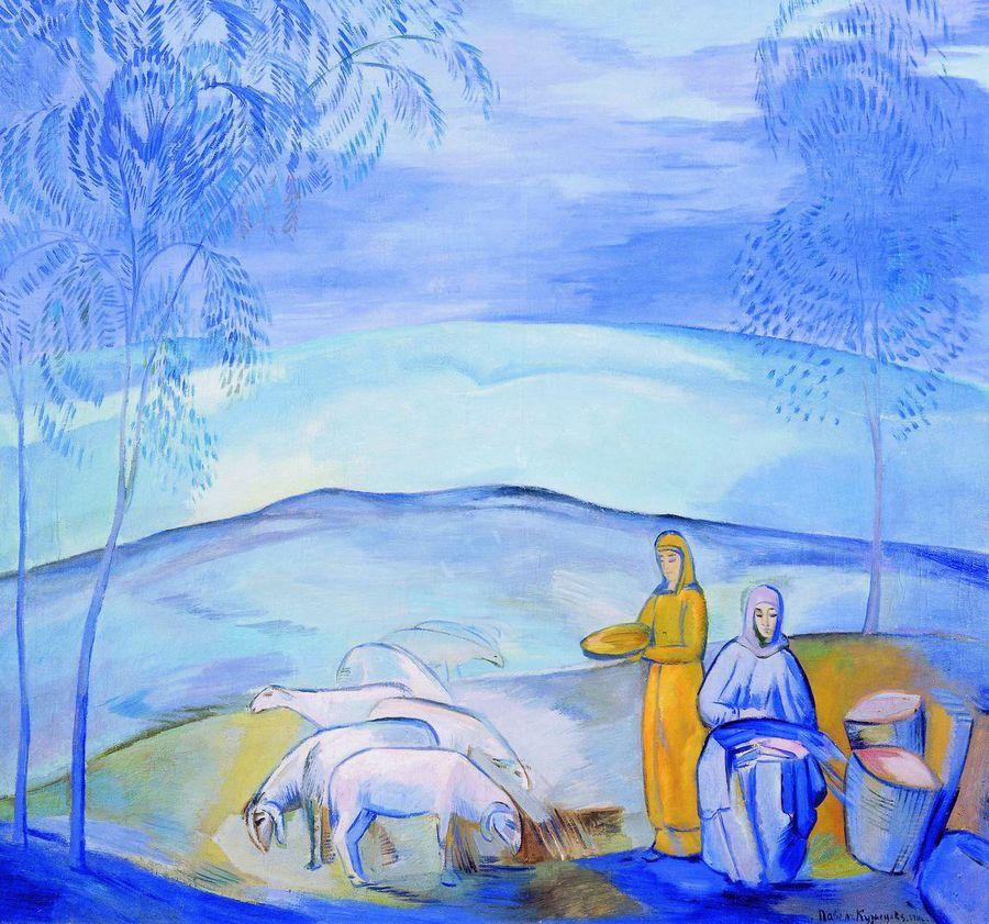 In the Steppe. Mirage